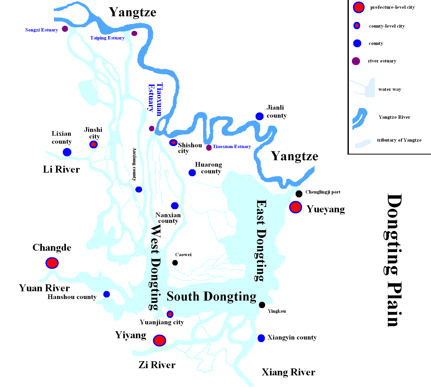 Map of Dongting Plain, use for Latin script languages